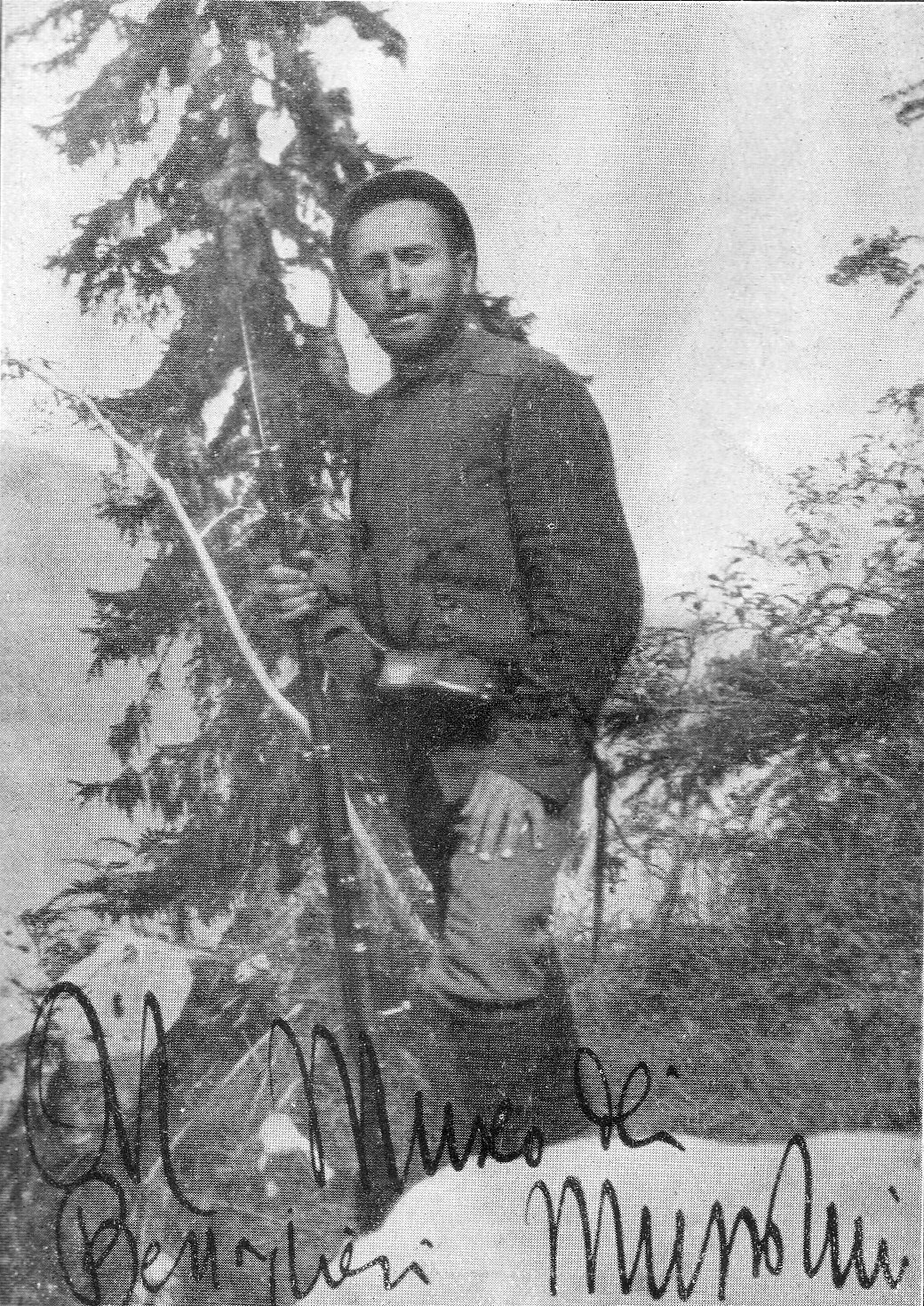 Benito Mussolini in Bersaglieri uniform, with autograph dedication signed: "to the Museum of Bersaglieri"(1915-1917)